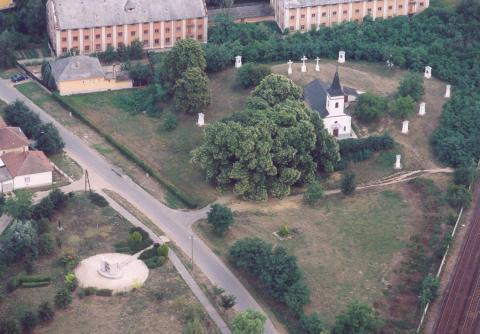 calvaria chapel in Rakamaz, Hungary, aerialphotography